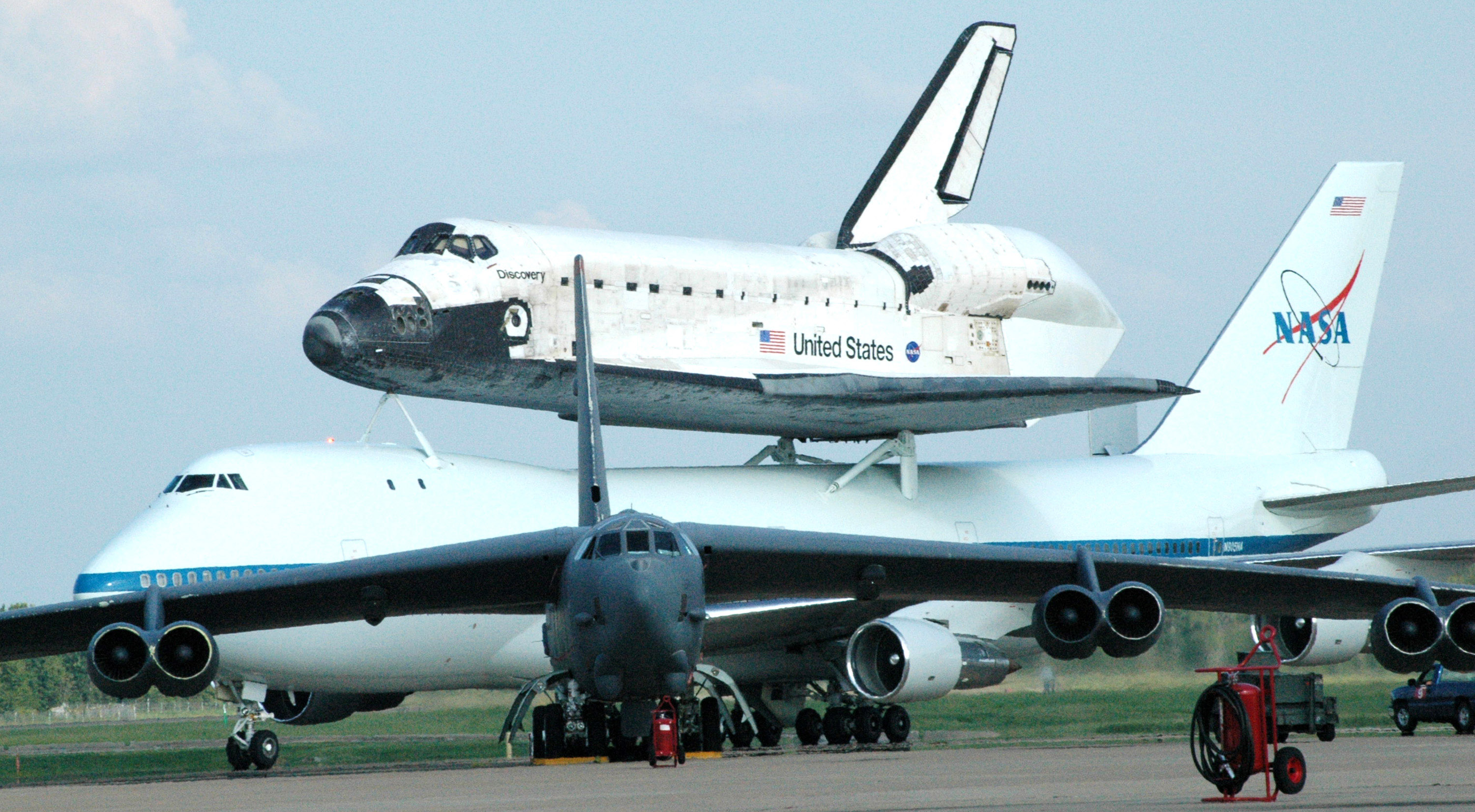 A NASA Boeing 747 SCA carrying Space Shuttle Discovery, still scorched from its re-entry into Earth's atmosphere, taxis at Barksdale Air Force Base, LA. Discovery's stop was the second of two as the shuttle was on its way back to Kennedy Space Center, Fla.